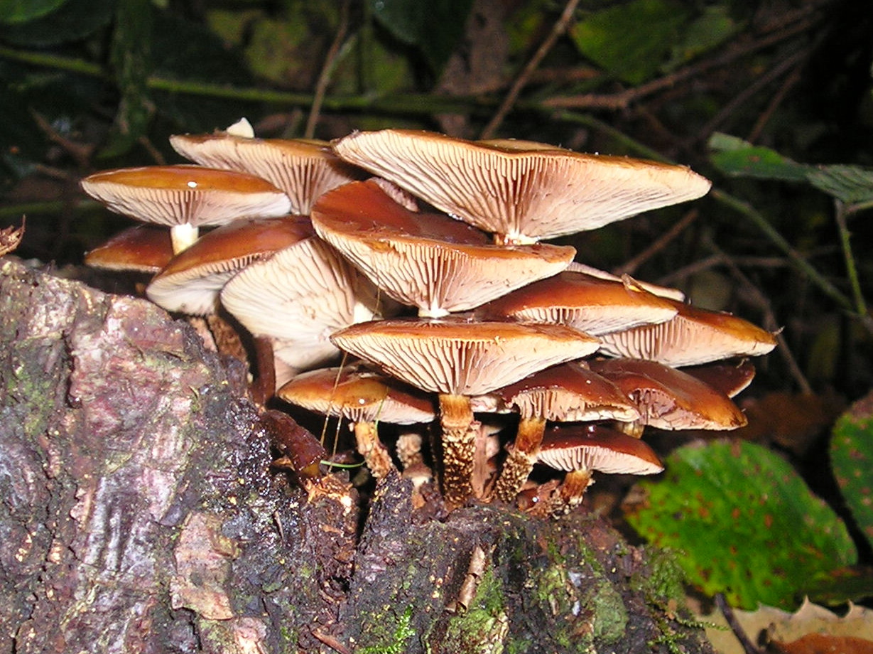 Kuehneromyces mutabilis in a French wood.